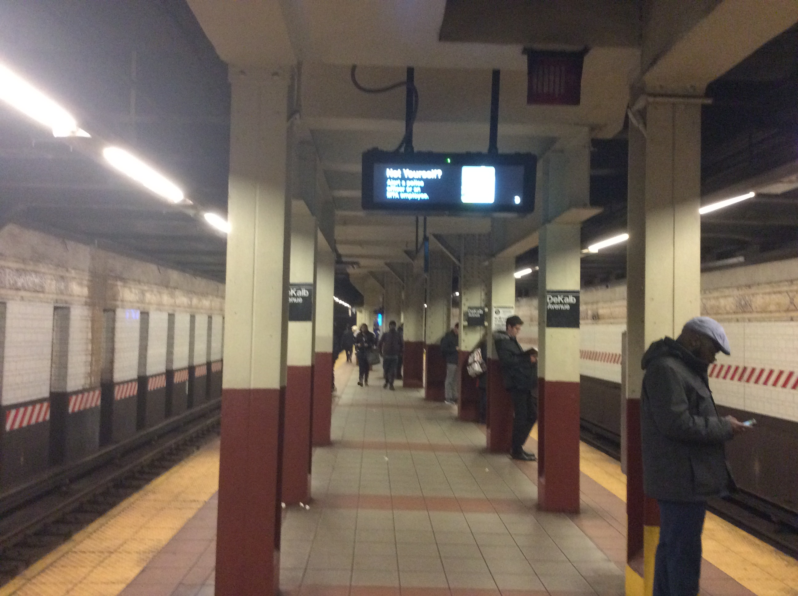 DeKalb Avenue station on the BMT Fourth Avenue Line in March 2017